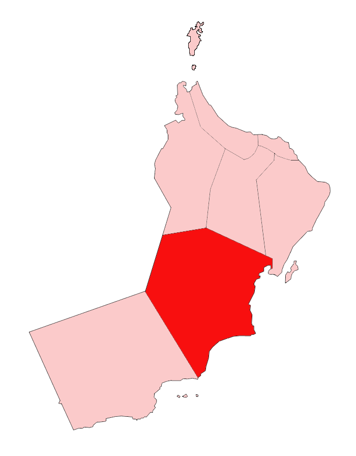 Map of Oman showing Al Wusta region